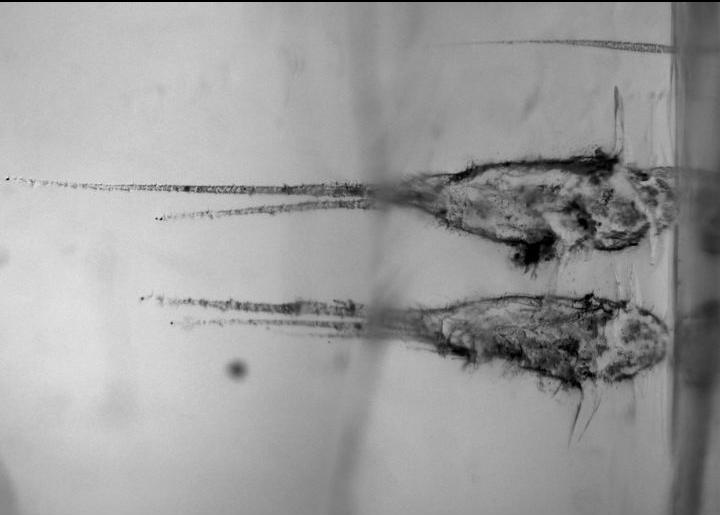 Comet particle tracks in aerogel. of Stardust spacecraft. This image shows the tracks left by two comet particles after they impacted the Stardust spacecraft's comet dust collector. The collector is made up of a low-density glass material called aerogel. Scientists have begun extracting comet particles from these and other similar tadpole-shaped tracks.